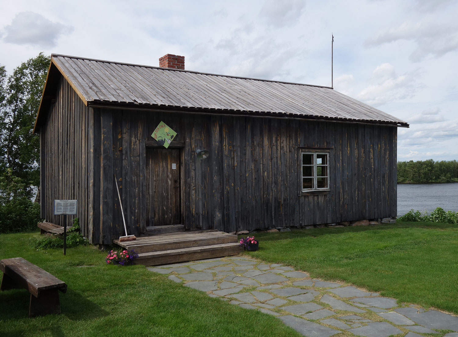 Laestadius' house in Karesuando. This small building was one of four houses at the time when Lars Levi Laestadius lived here, 1826--1949.